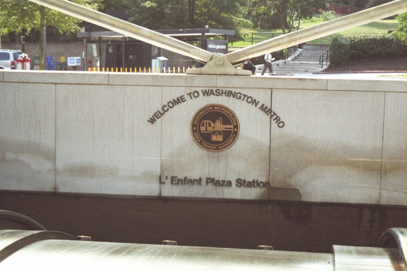 Street-level entrance to L'Enfant Plaza Metro station, Washington, DC. Taken with a film camera, scanned in 2007.